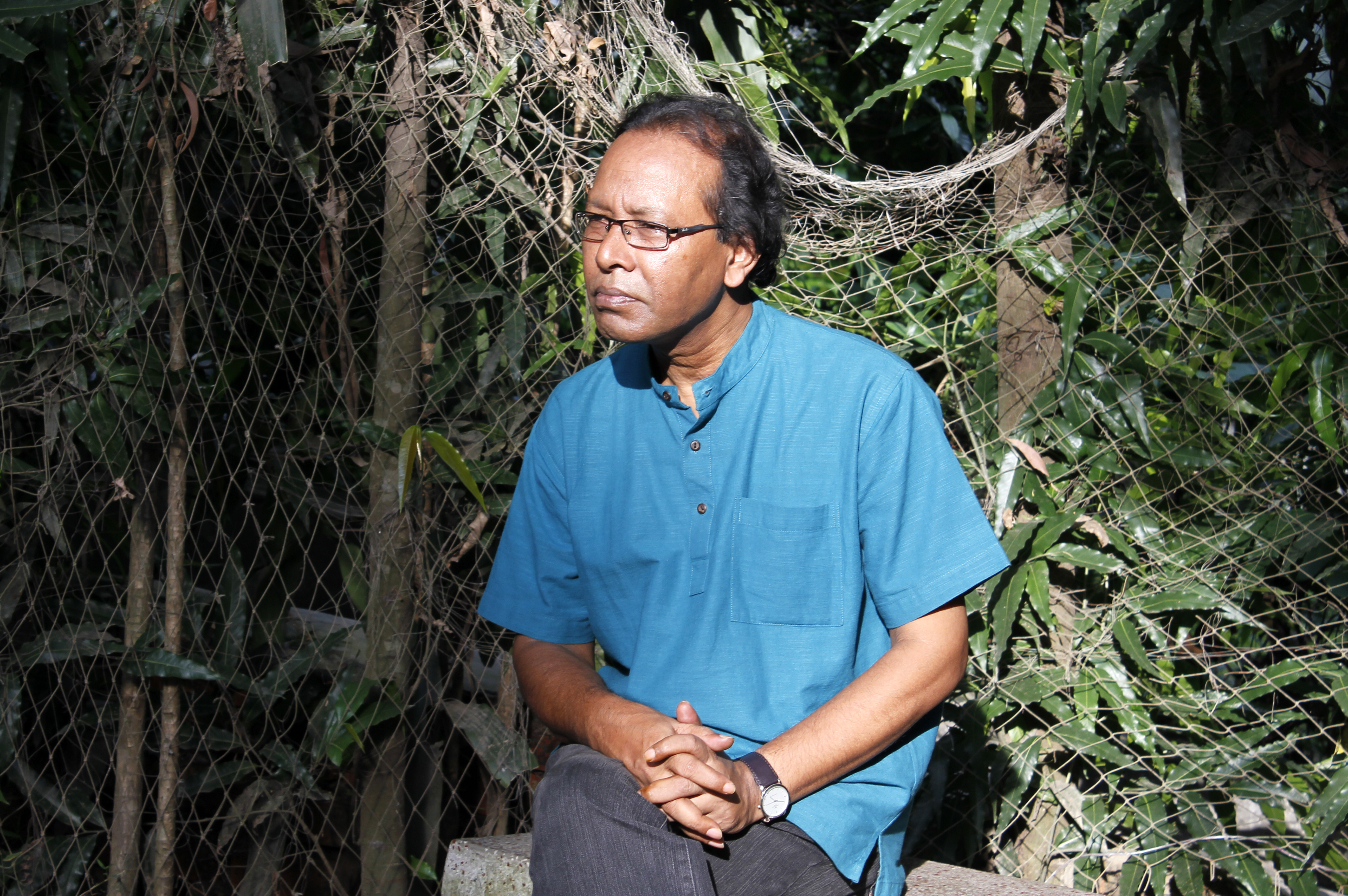 Hafiz Rashid Khan, Bangladeshi author, poet, editor and journalist.